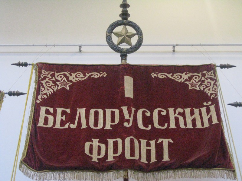 The colours of the 1st Belorussian Front, a Soviet army group of the Second World War, in the Russian Military Museum in Moskow